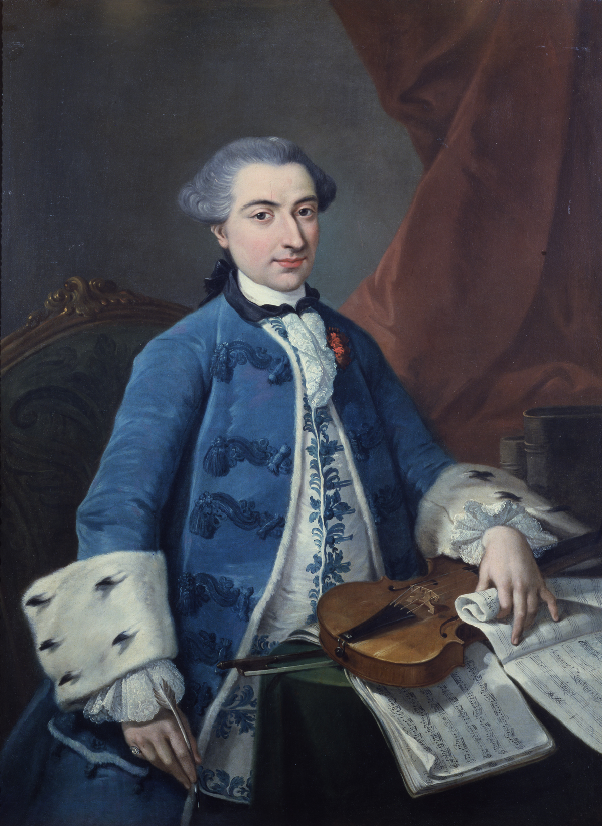 Portrait of Giulio Gaetamo Gerolamo Pugnani (1731-1798), violinist and composer.